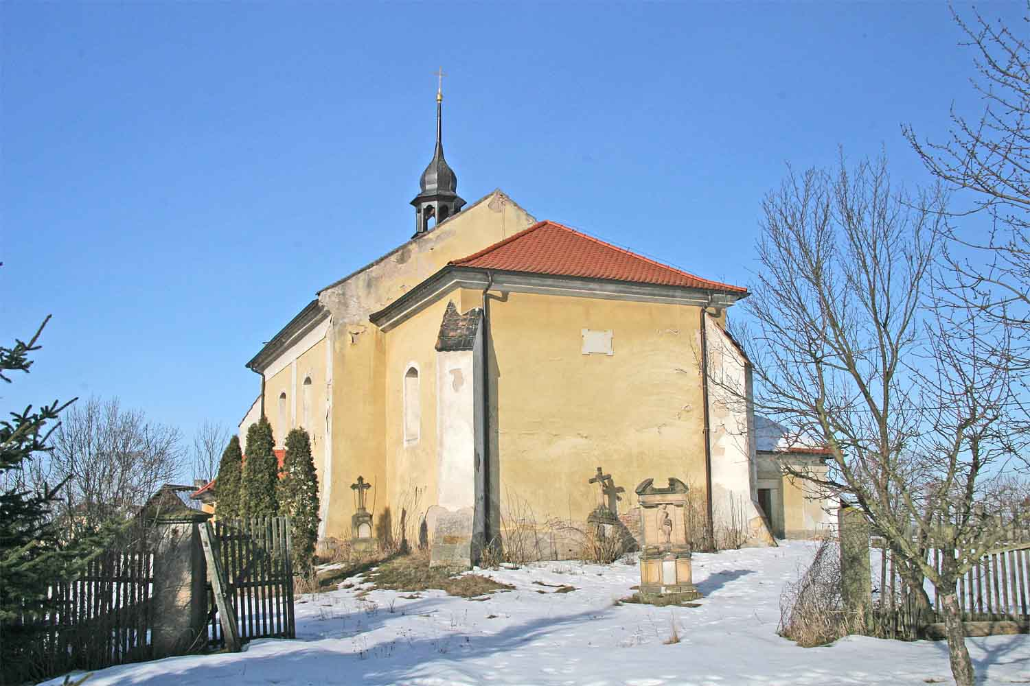 Originally Gothic church of St Wenceslaus in Stará Voda, Hradec Králové District, Czech Republic